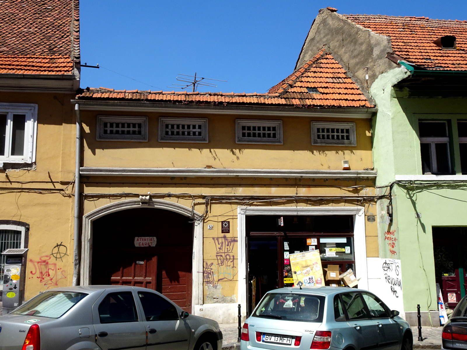 House in Bălcescu street, Brașov